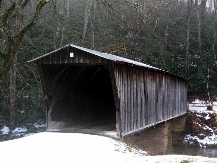 A photo of the Bob White Covered Bridge in Patrick County, Virginia, taken by M.L. Devall in December 2004.